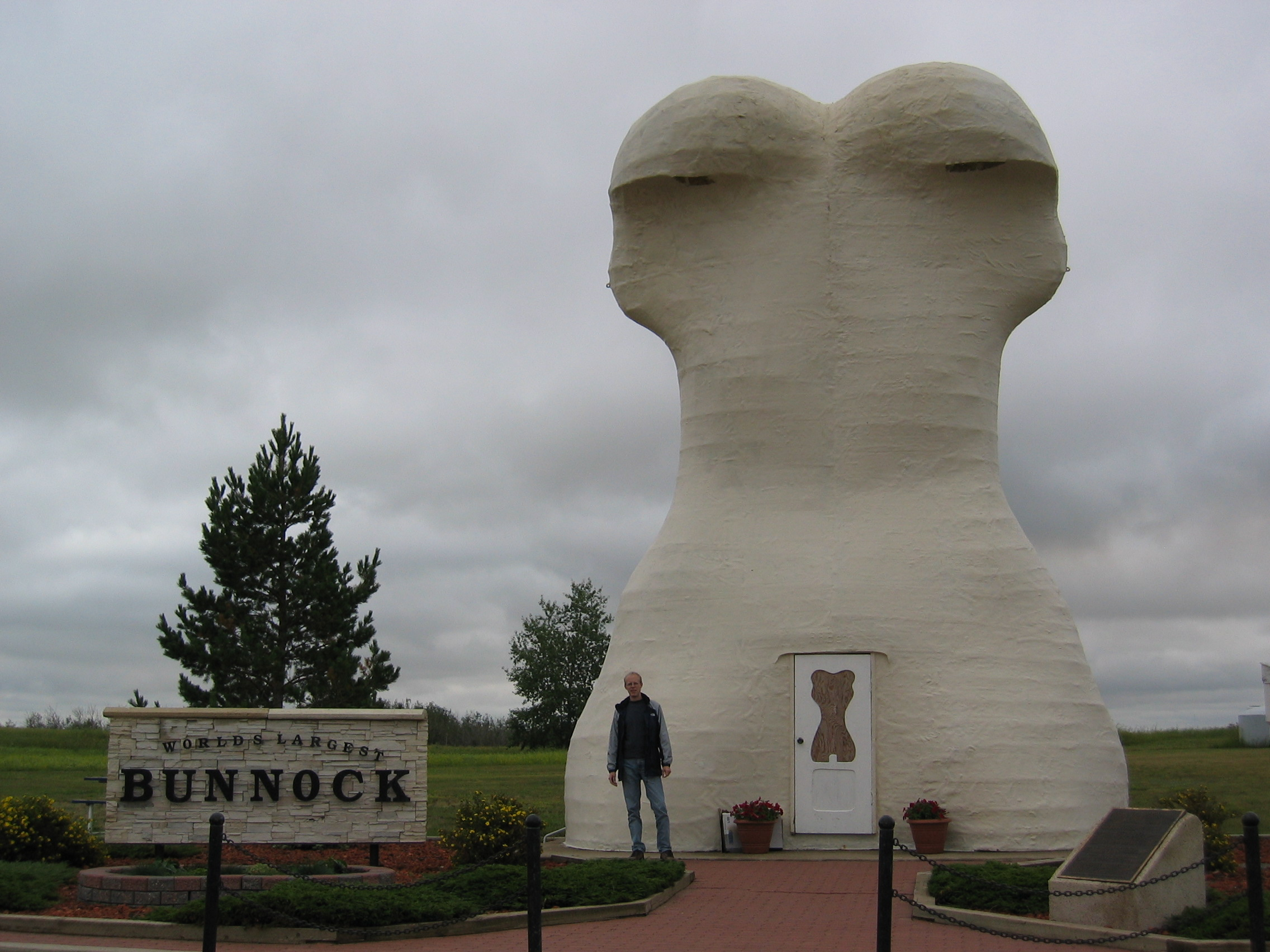 Giant Bunnock (horse's leg bone) in Macklin SK. Summer 2004